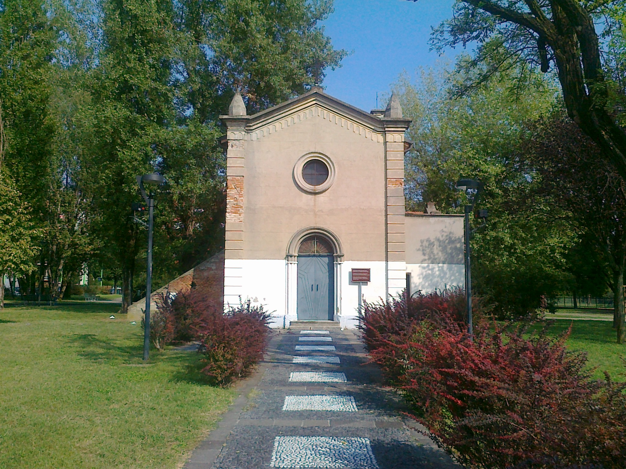 Church of Santa Maria Maddalena, inside frescoes of Bernardino Luini school. Precotto, quartier of Milan, build 1620